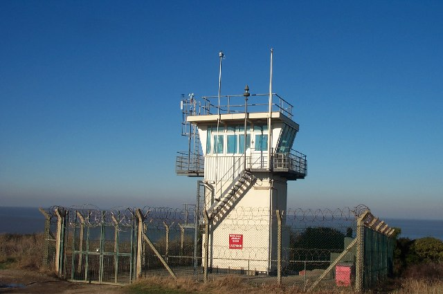 Range Quadrant Hut near Lilstock The sign on the building reads "Royal Navy Aircraft Range. Lilstock." It is used as a lookout during gunnery practice over the sea.